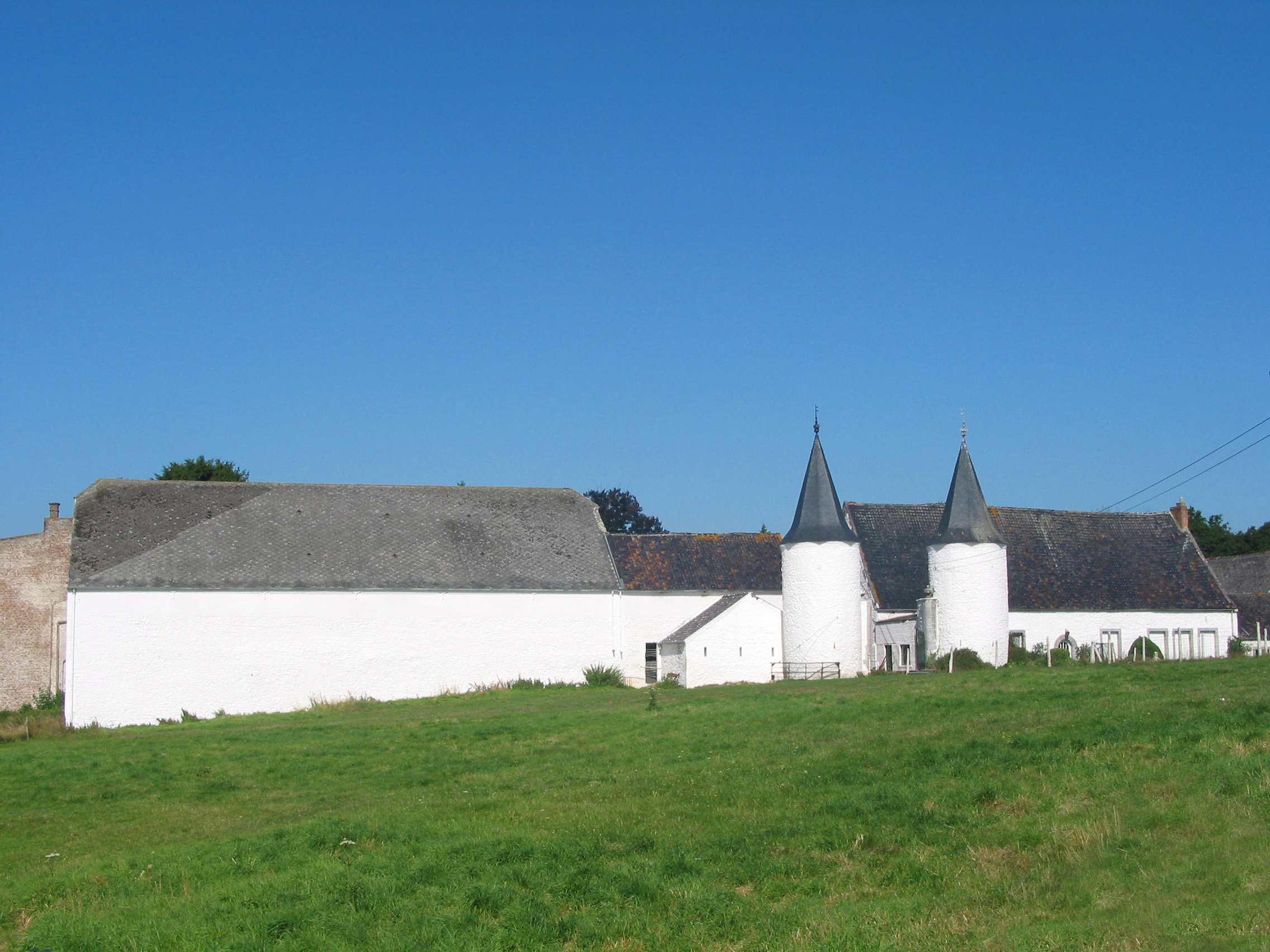 Montignies-Saint-Christophe (Belgium), castle farm (XVII/XIXth centuries).